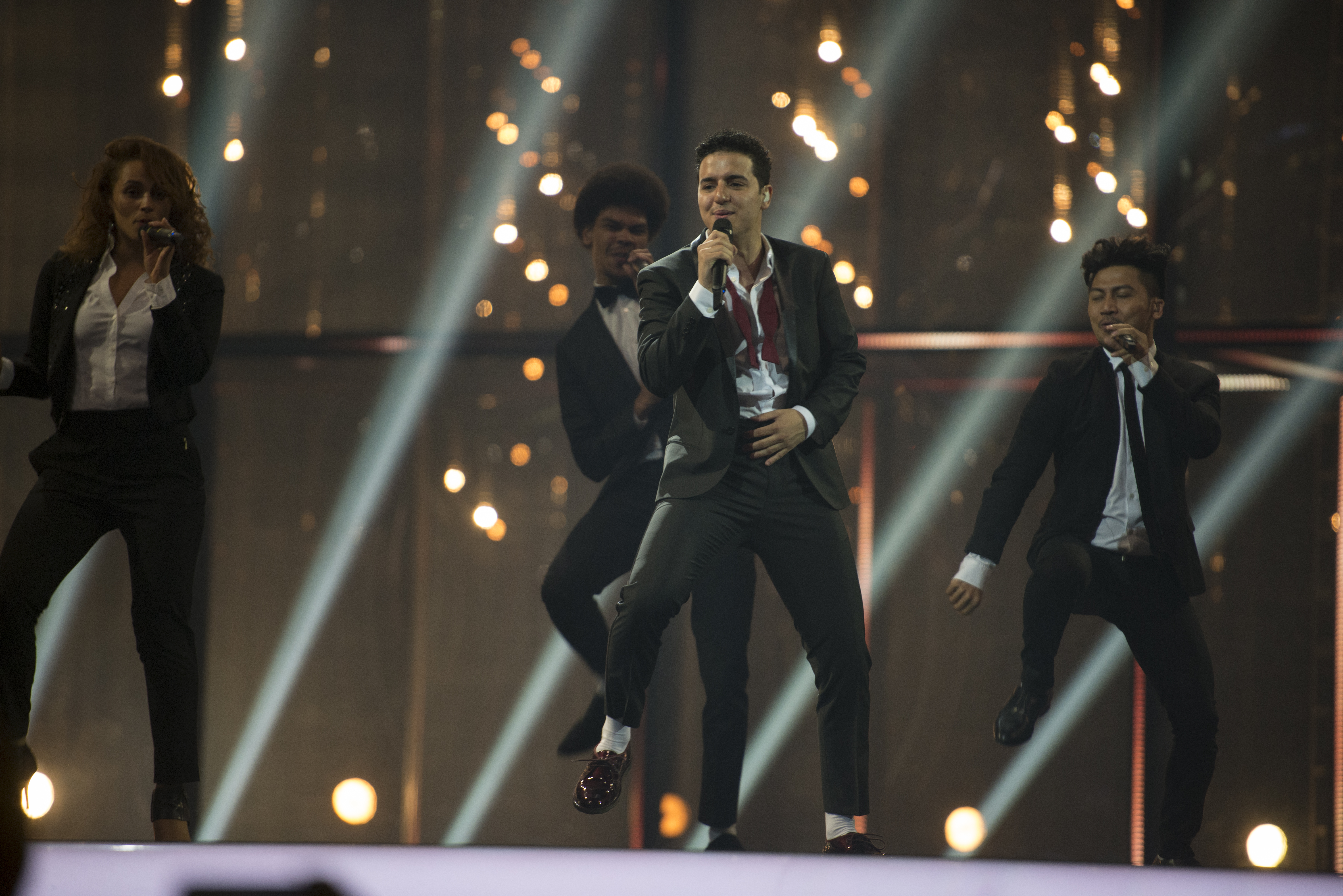 Basim representing Denmark with the song "Cliché Love Song" during the first dress rehearsal of the final of the Eurovision Song Contest 2014 Copenhagen. (Help translate this text)